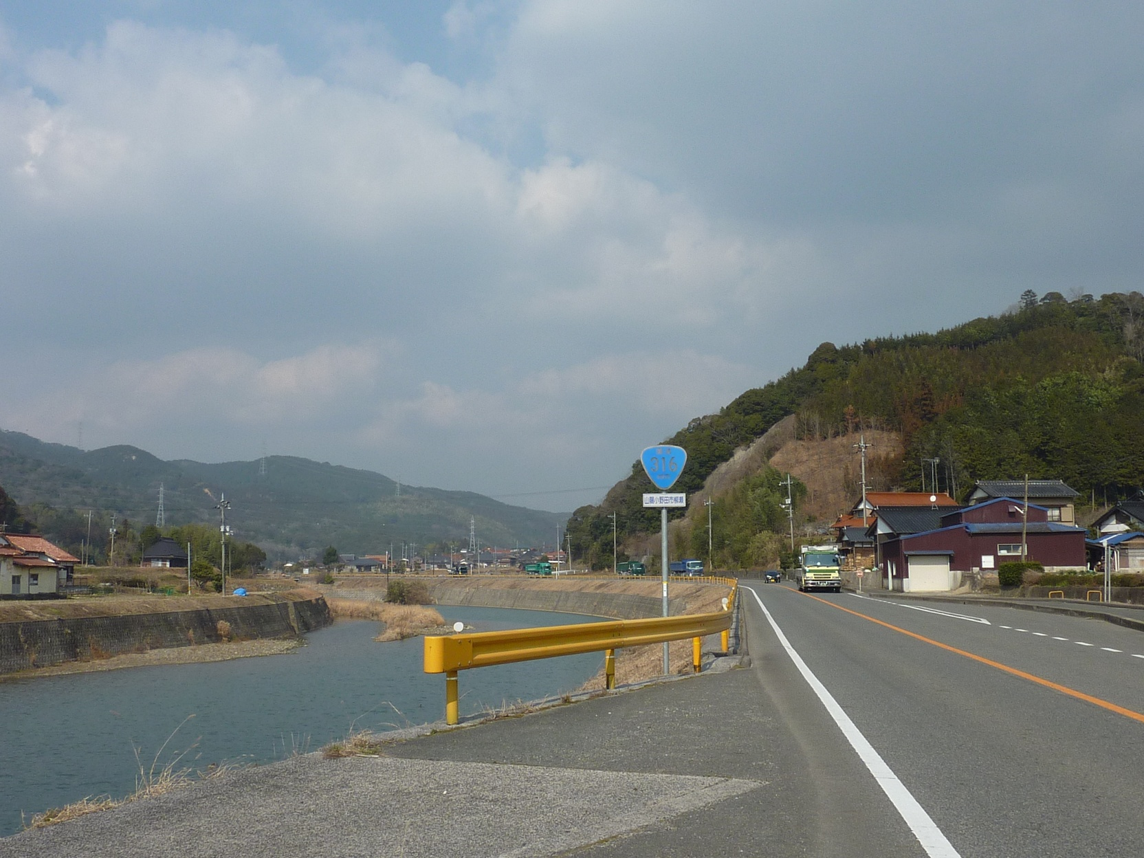 The National Route 316 in Asa, Sanyo-onoda City, Yamaguchi Prefecture, Japan.